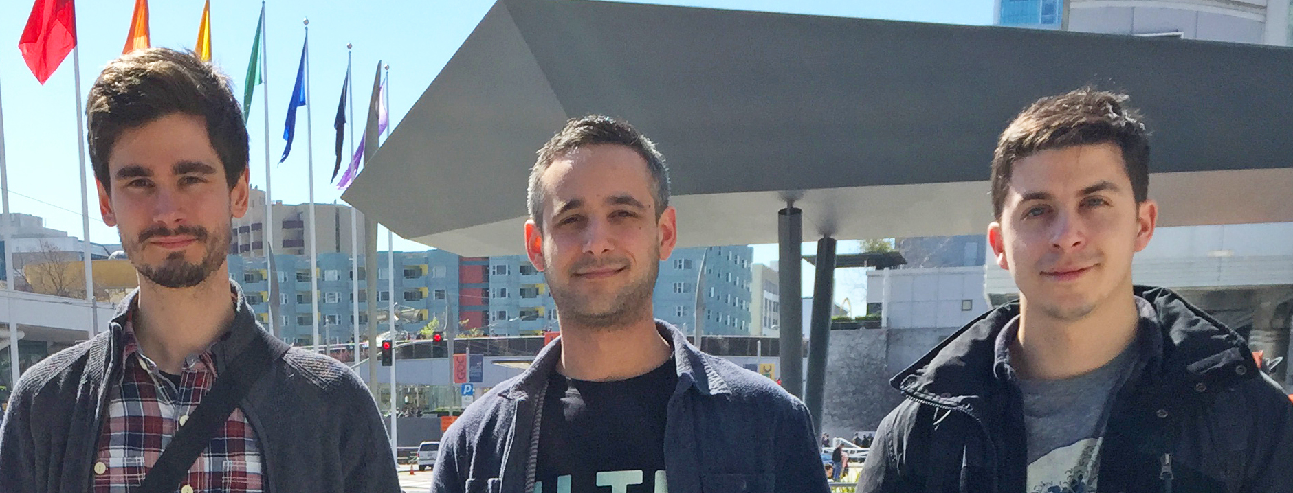 Alto's Adventure development team at GDC 2015, taken on an iPhone 6, from the left: Harry Nesbitt, Ryan Cash, Jordan Rosenberg